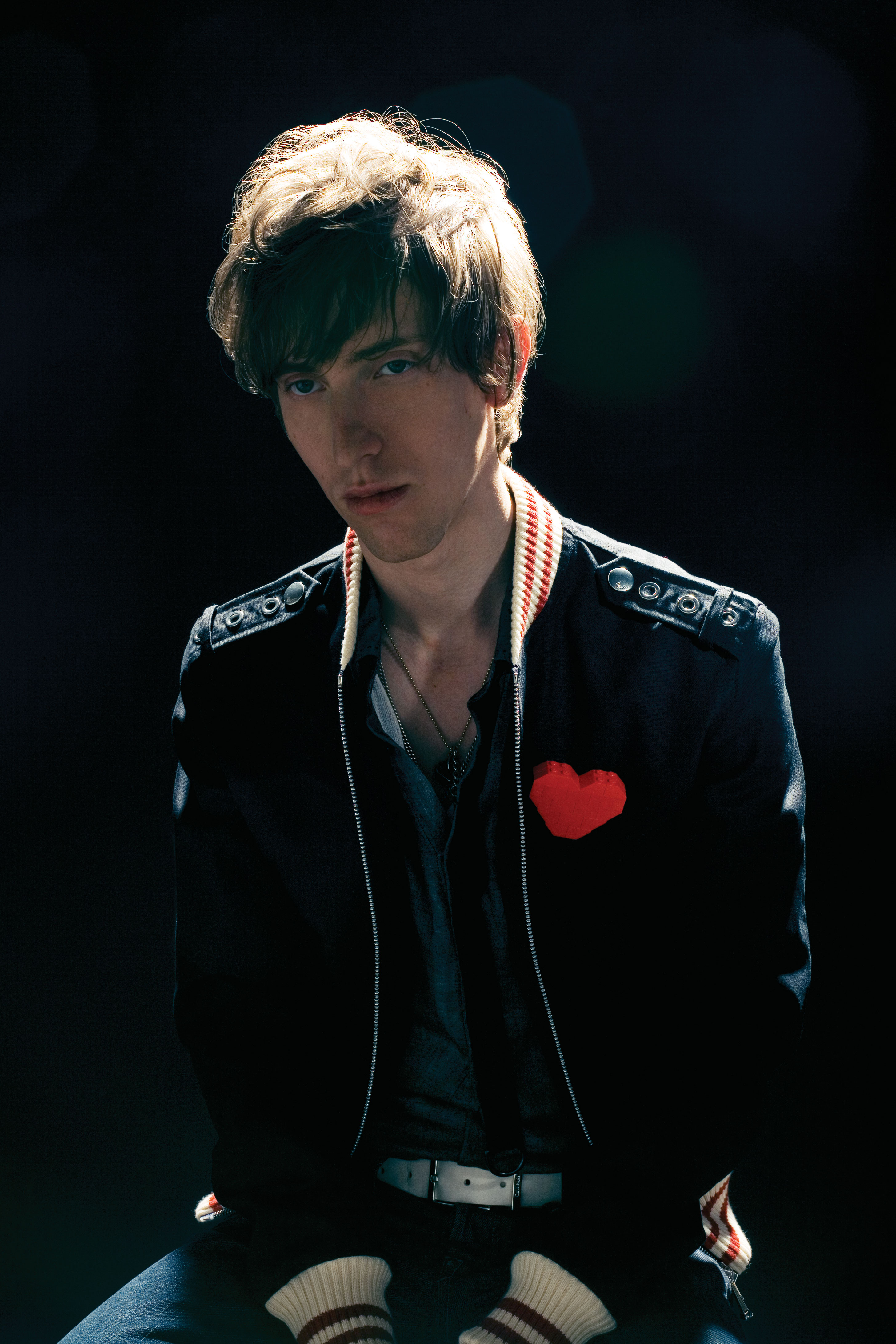 Photograph by Anna Wolf. Shot in June 2008 in Brooklyn, NY. An image of Colin Monroe sitting and looking off into the distance with a Lego heart in his jacket.